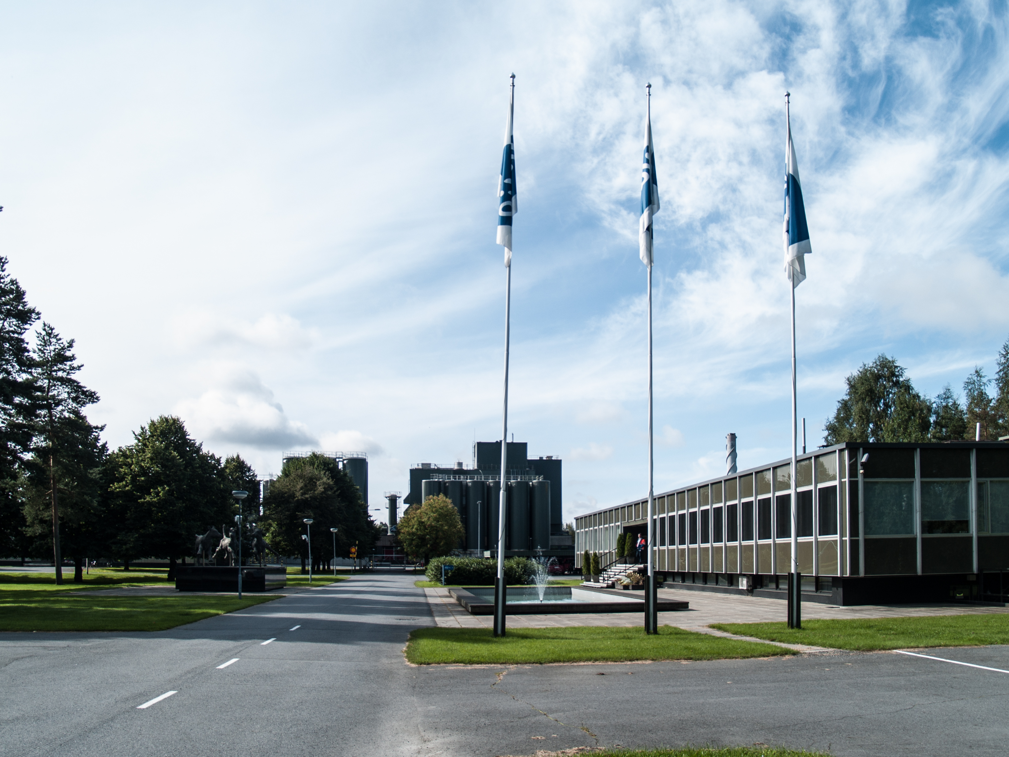 Valio_dairy_product_factories, formerly known as Maitojaloste, in Seinäjoki, Finland